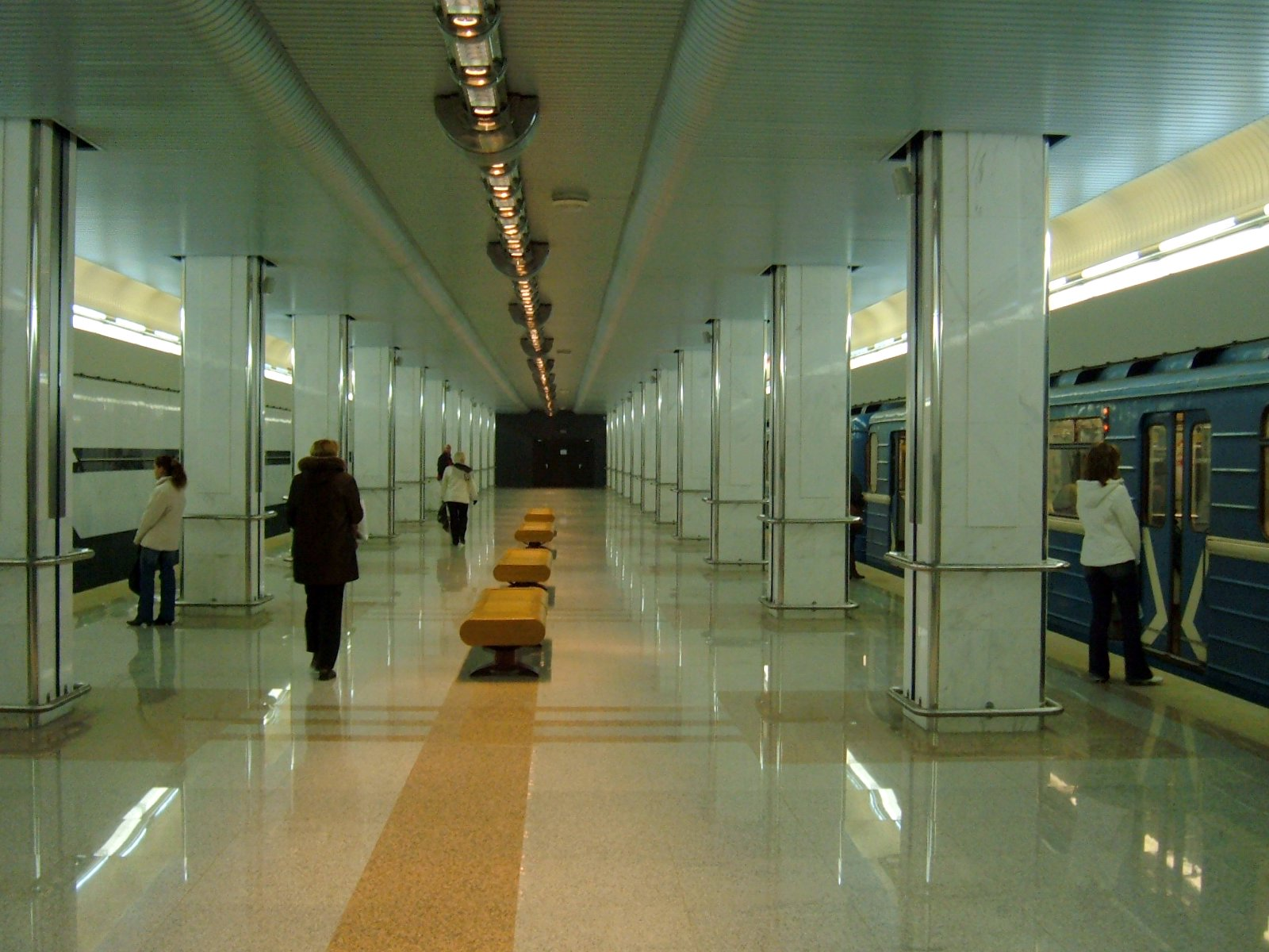 Metro station "Sportivnaya", Minsk, Belarus